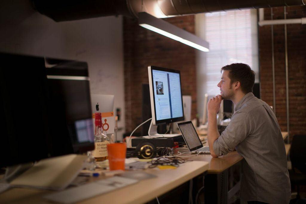 The HubSpot dev/engineering area.